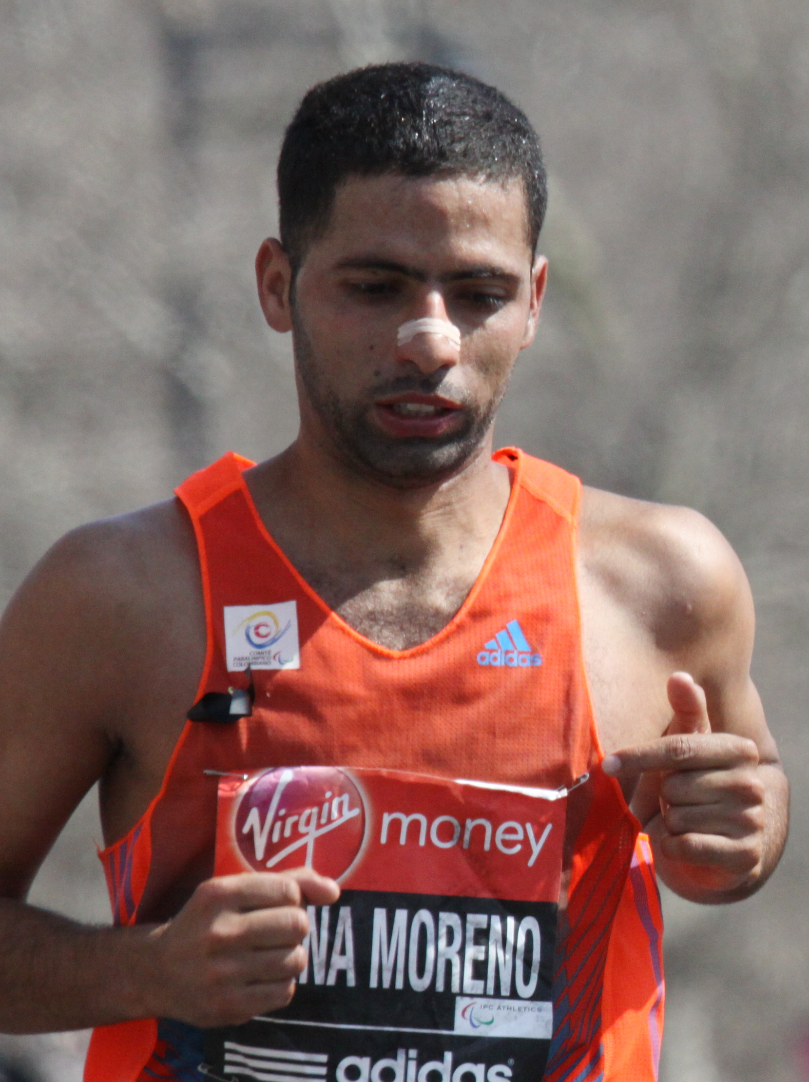 Elkin Alonso Serna Moreno during 2013 London Marathon, photographed at Victoria Embankment, London, Great Britain. The making of this file was supported by Wikimedia UK.